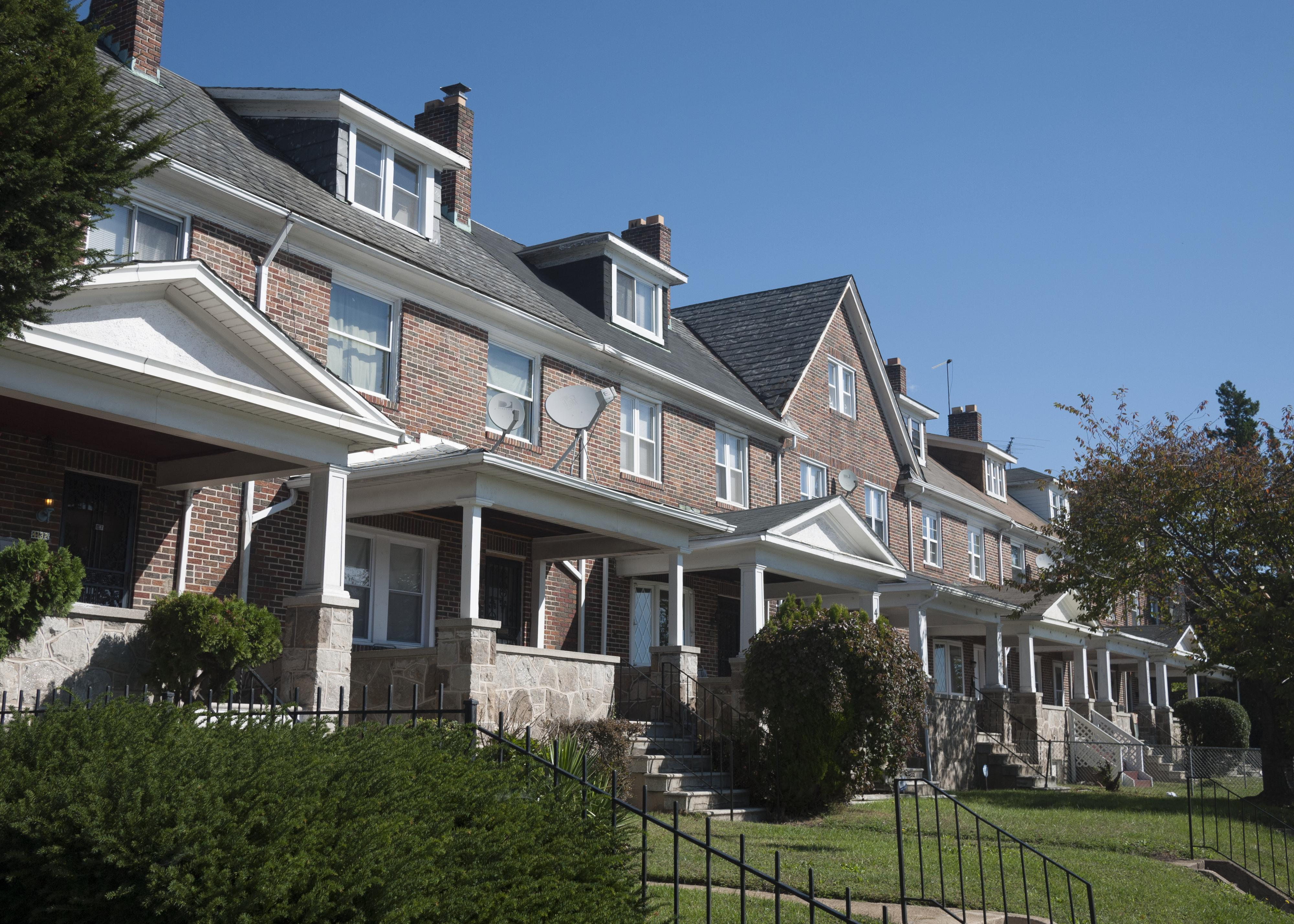 Rowhouses, 4132-4122 Edmondson Avenue - View facing northeast. Photograph by Eli Pousson, Baltimore Heritage for the nomination of the Edmondson Village Historic District to the National Register of Historic Places.